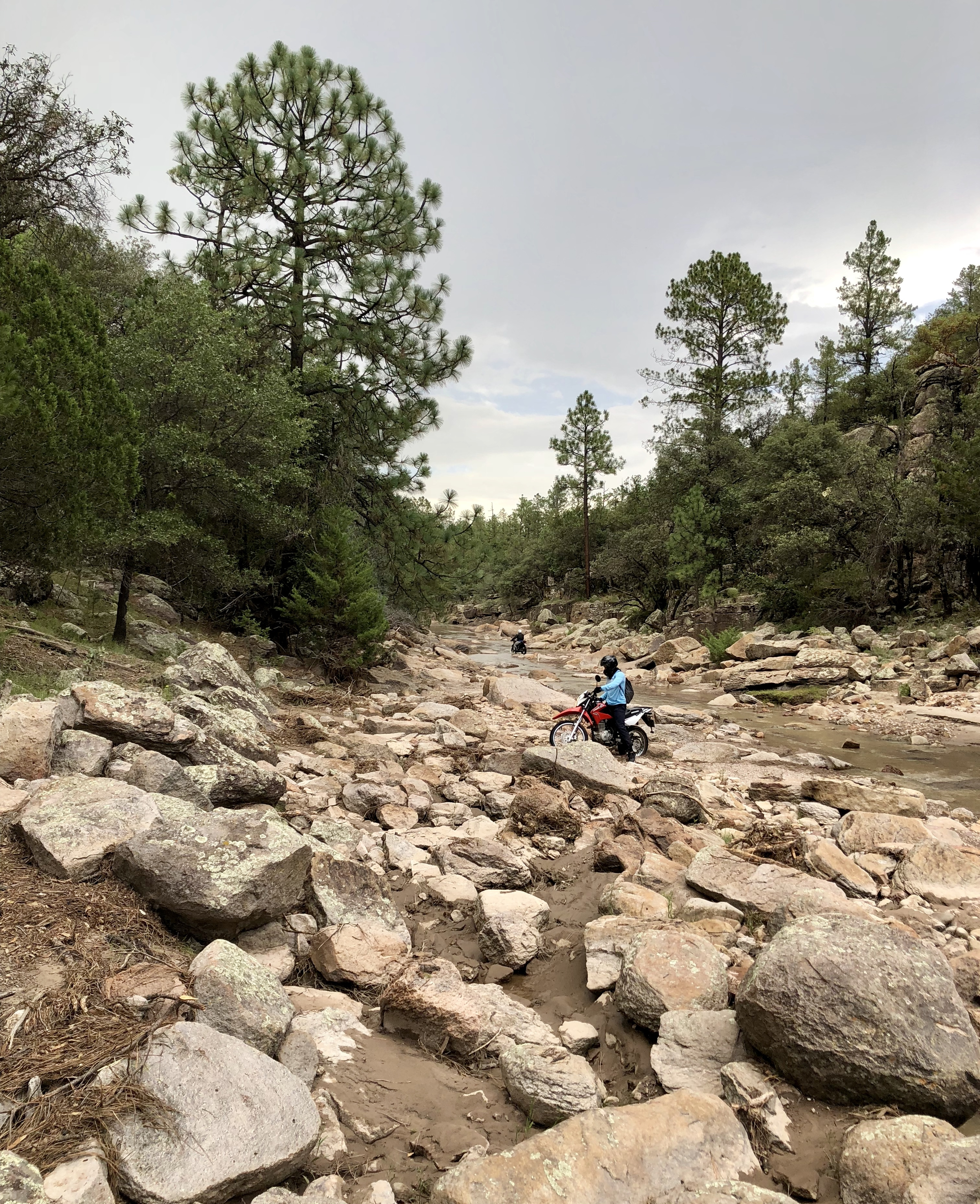 Dirt Bikers in Majalca